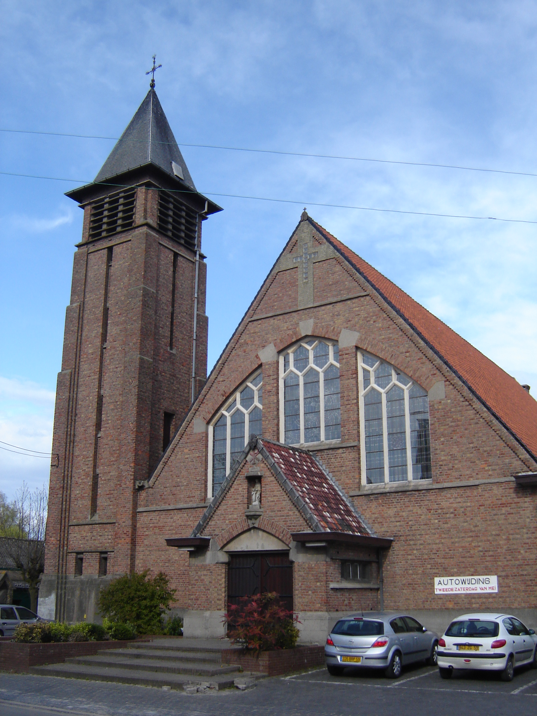 Church of Saint Joseph in Wervik. Wervik, West Flanders, Belgium